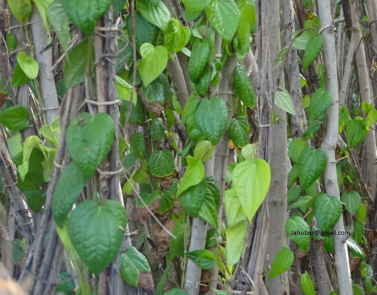 பெரியபட்டினம் வெற்றிலை (Betel)